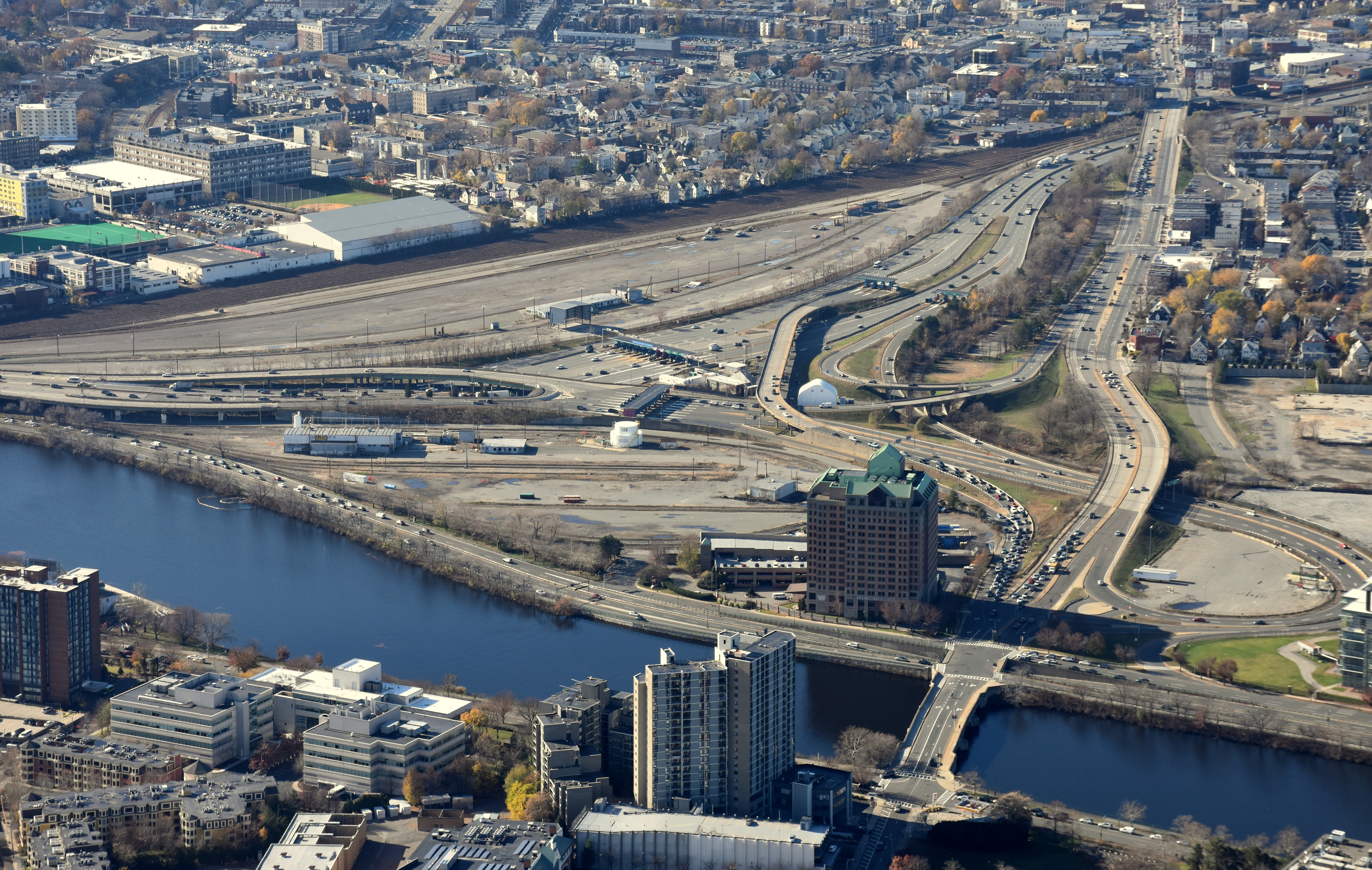 Aerial view of Beacon Park Yard and Interstate 90 (I-90) in Allston, Boston, Massachusetts. Also prominent are the Double Tree Hotel next to the Yard and 808 Memorial Drive residence high rises on the opposite side of the Charles River